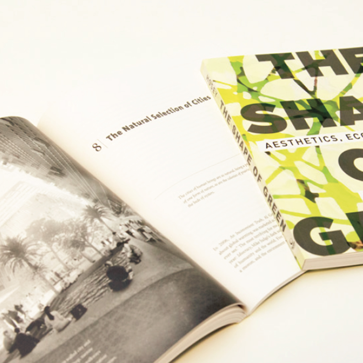 Image of Lance Hosey's book, "The Shape of Green: Aesthetics, Ecology, and Design"